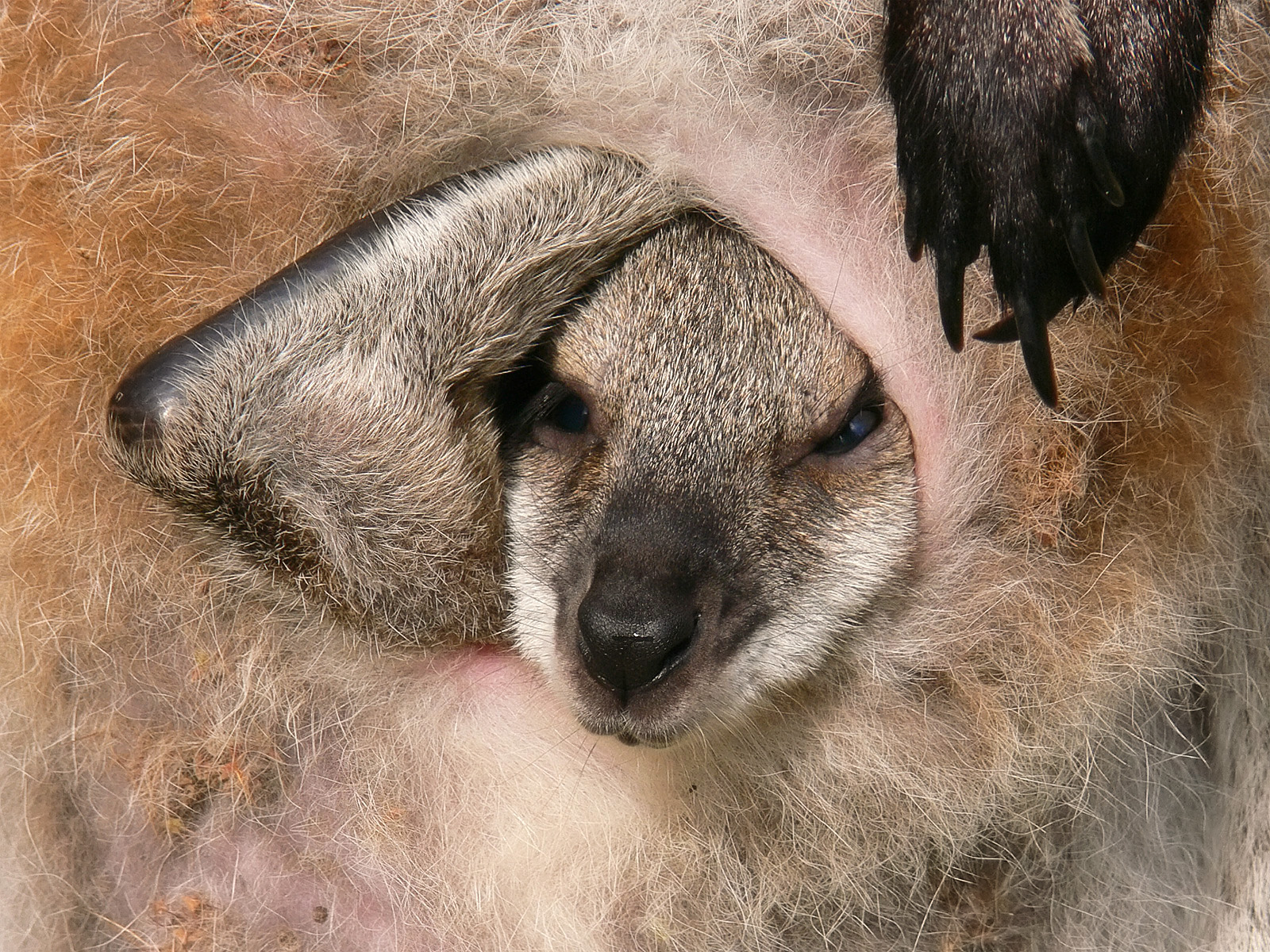 A Red-necked wallaby, Macropus rufogriseus, joey in the pouch. That is the joey's hind leg that is twisted around behind the joey's head, once joeys get older they have trouble fiting in the pouch. this shot shows more of the adult and makes it more understandable